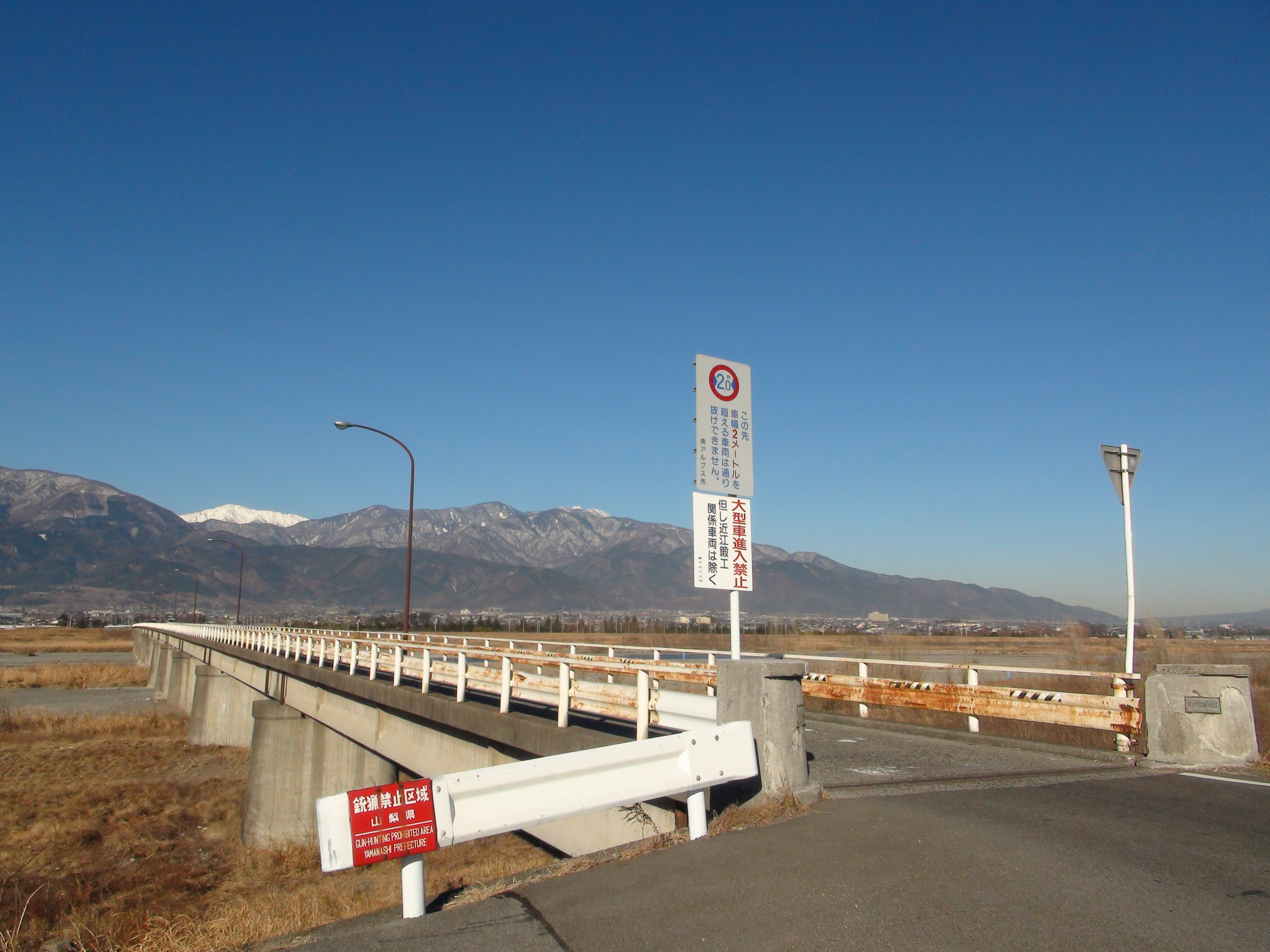 From the eastern side of Kagaminakajo bridge, heading WNW